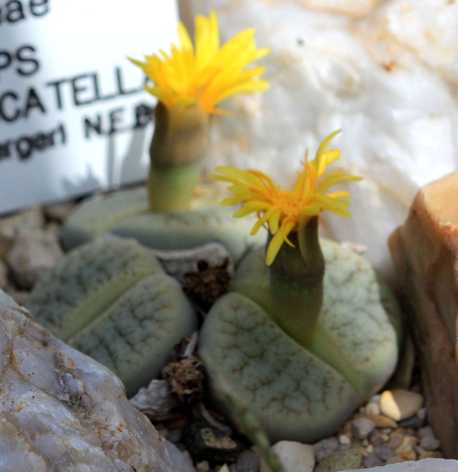 Succulent plant Lithops pseudotruncatella, The Botanical Gardens of Charles University, Prague, Czech Republic